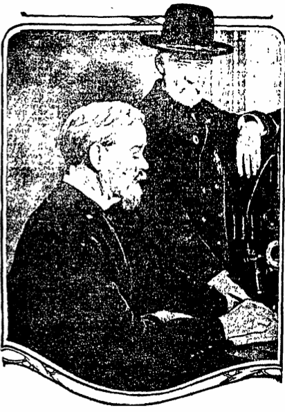 Grand Army of the Republic Department Commander C.H. Haskins (right), with Assistant Adjutant A.C. Shafer, at the desk, with a pen, who have opened departmental headquarters in the Los Angeles Chamber of Commerce building (June 1917). The Department HQ had been in San Francisco for the preceding 25 years. To be used at Austin Conrad Shafer.